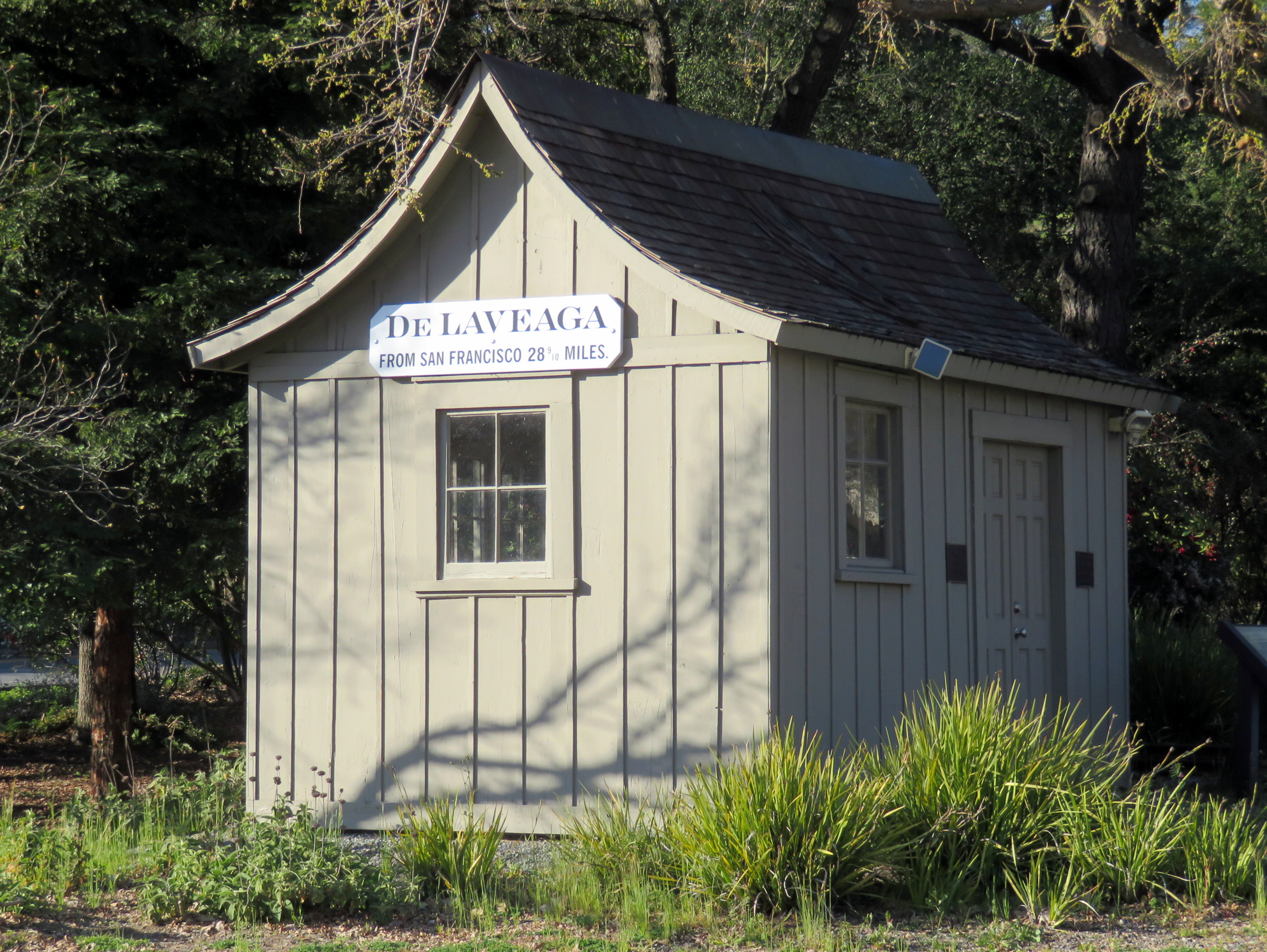 DeLaveaga station in March 2018